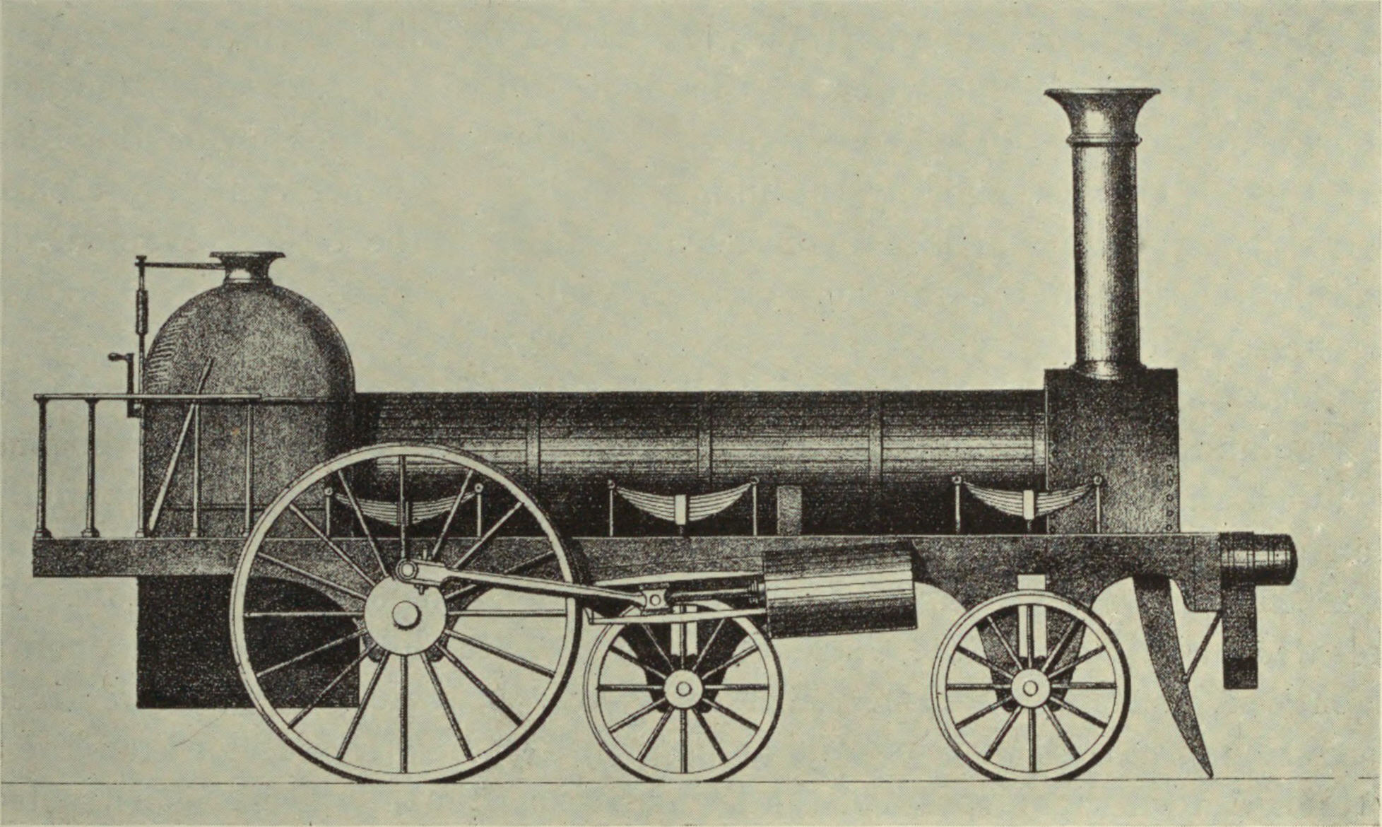 The Great North of England Railway "A" engine used in time trials in 1845. Image published in the Royal Commission's report in 1846 and reproduced in "The North Eastern Railway; its rise and development", 1915, Tomlinson, William Weaver, 1858-1916.